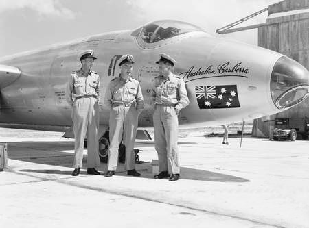 Squadron Leader Peter Raw (centre) and the two other members of his Canberra bomber's aircrew standing in front of their aircraft. This aircraft was assigned to No. 1 Long Range Flight at the time, and placed second in the 1953 Christchurch Centenary Air Race.